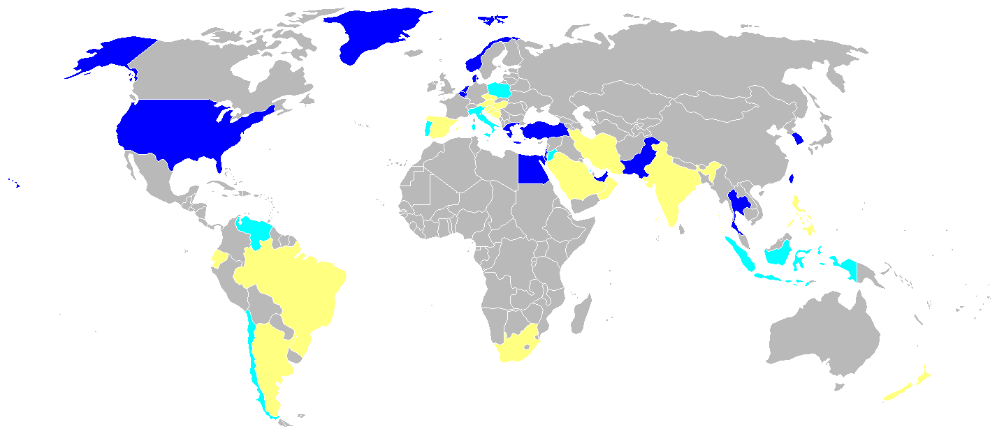 World map of F-16 Fighting Falcon operators Dark Blue: Operator of more than fifty aircraft. Light Blue: Operator of less than fifty aircraft. Yellow: Potential or cancelled plans for operation.